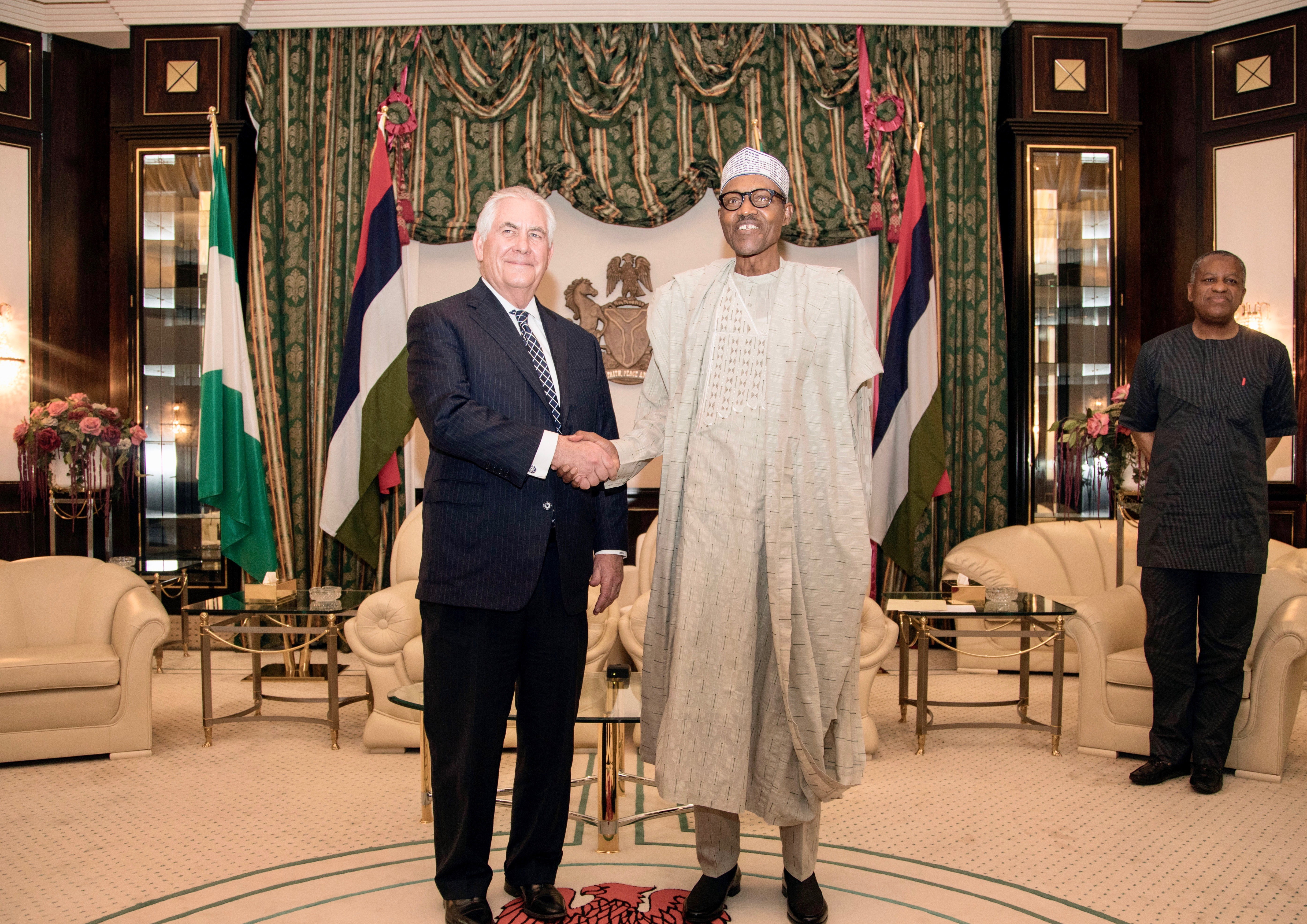 U.S. Secretary of State Rex Tillerson shakes with Nigerian President Muhammadu Buhari after their meeting at the Aso Rock Presidential Villa in Abuja, Nigeria on March 12, 2018. [State Department photo/Public Domain]